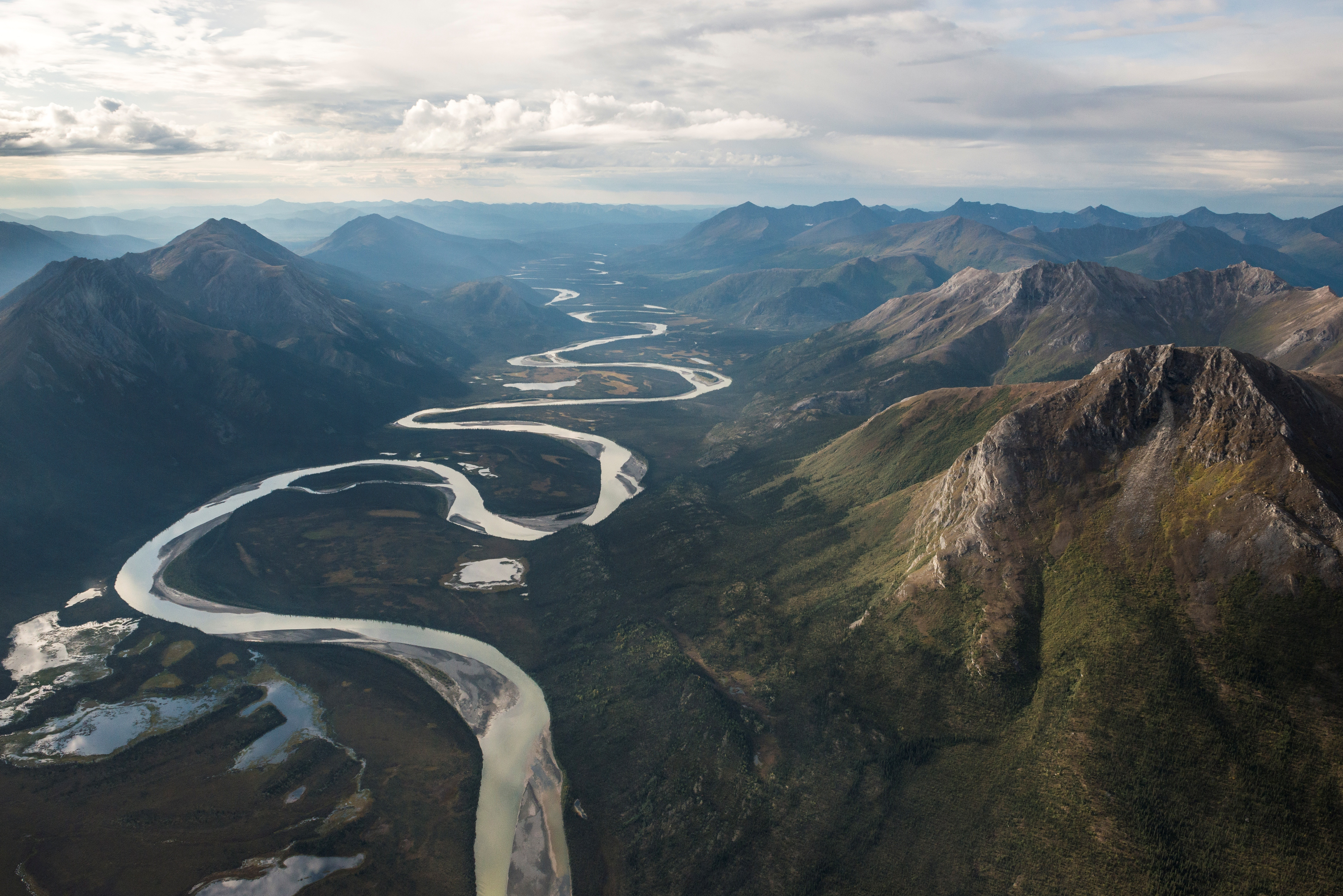 The treeless slopes of the Arctic Divide near the Nunamuit village of Anaktuvuk Pass. Gates of the Arctic National Park and Preserve. NPS Photo/Sean Tevebaugh